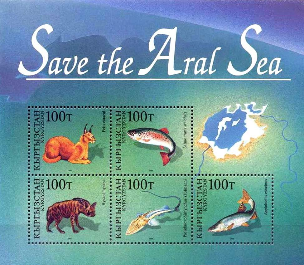 Stamp of Kyrgyzstan